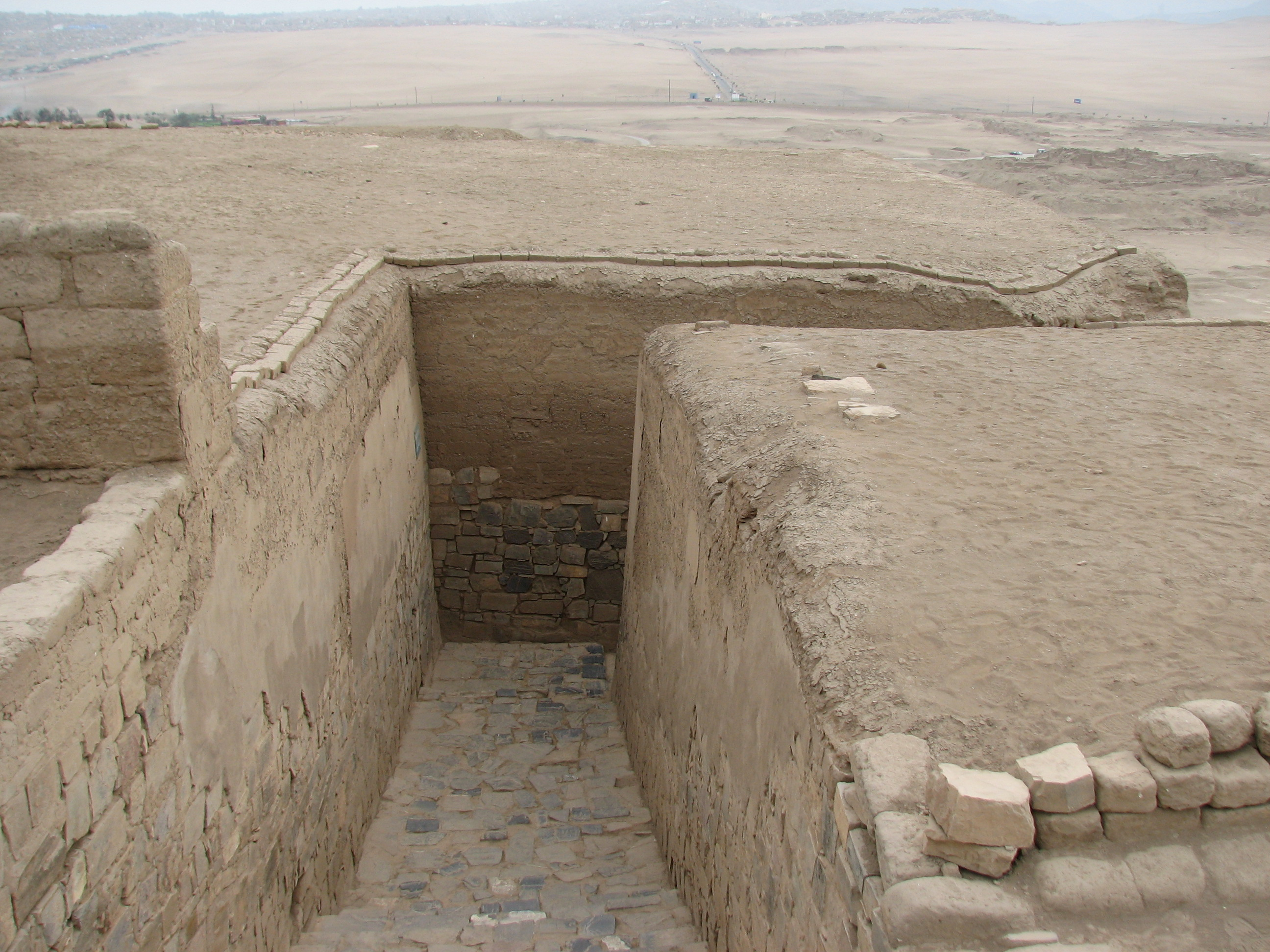 Pachacamac archaeological site in Peru